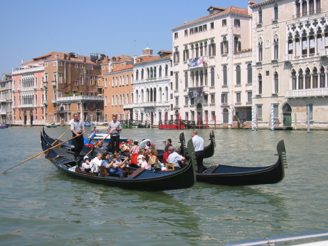 Grand Canal Venise 7